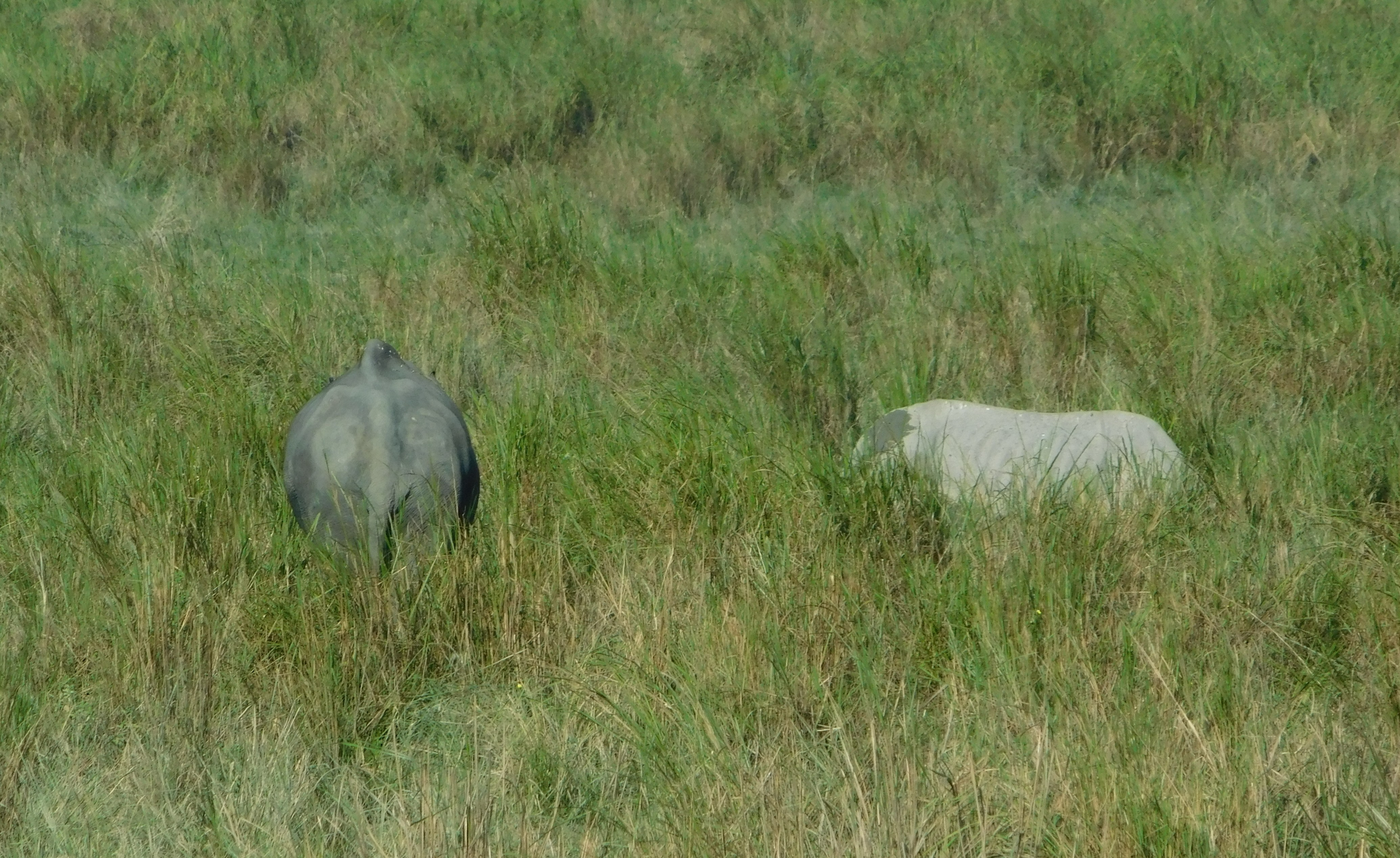 Great One Horned Rhinoceroses & Indian Elephant in a frame at Kaziranga National Park